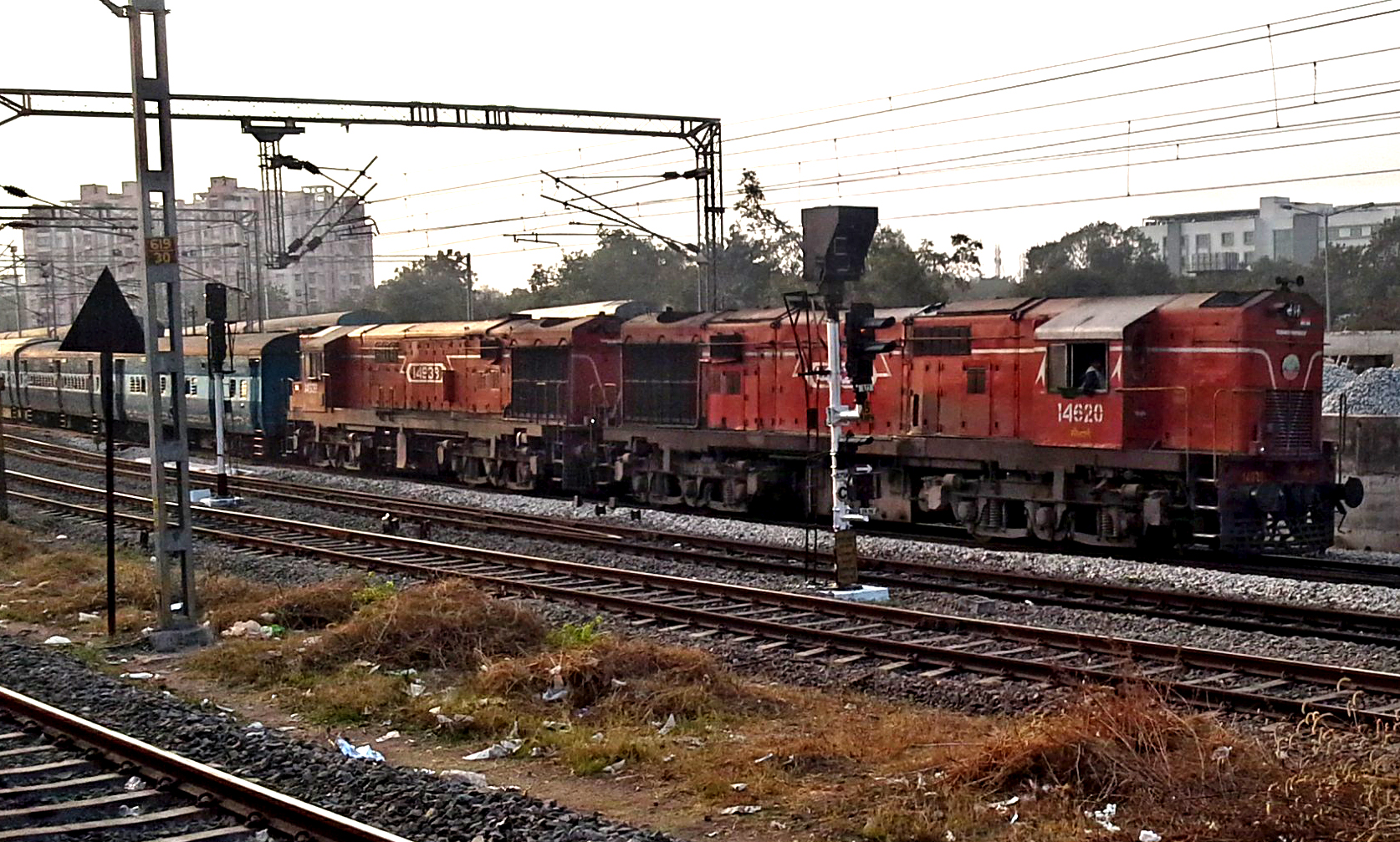 Bhubanaeshwar bound Visakha express exits Secunderabad railway station with WDG3A Twins incharge